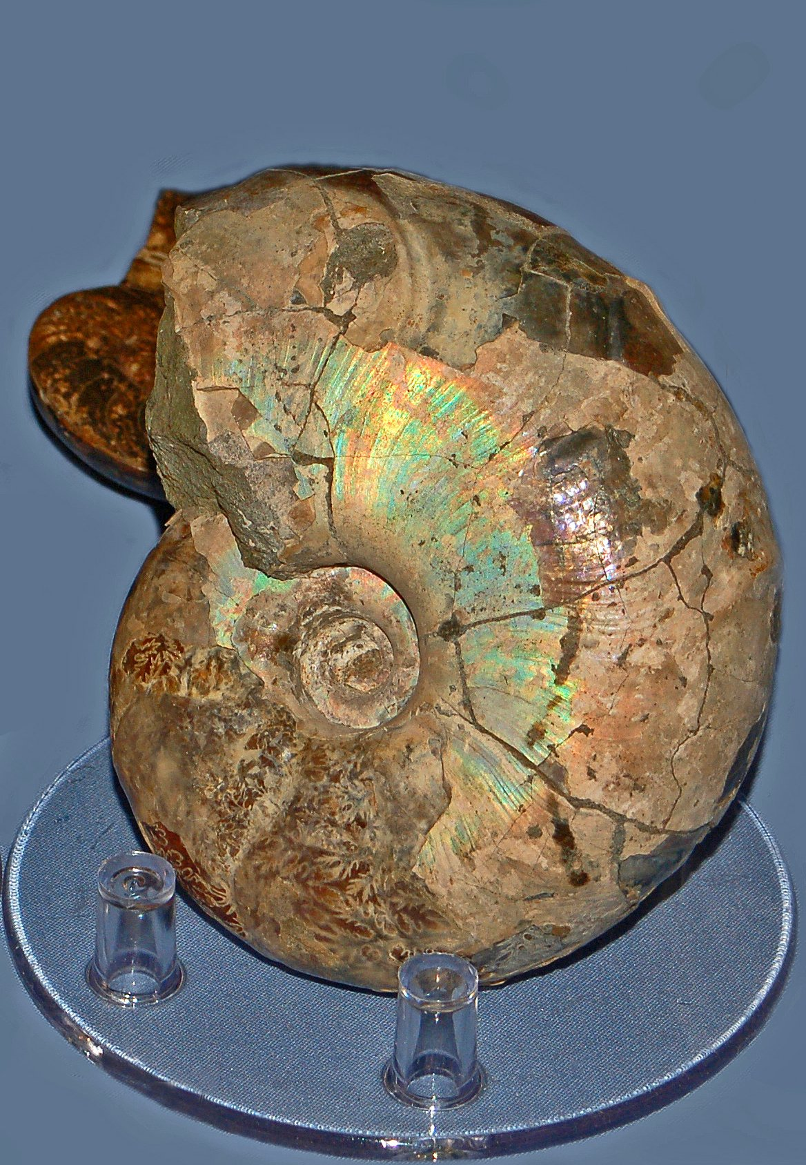 crop of file in file name